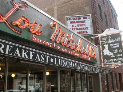 Since 1923, Lou Mitchell's in Chicago. My post about it on the Perceptive Travel blog